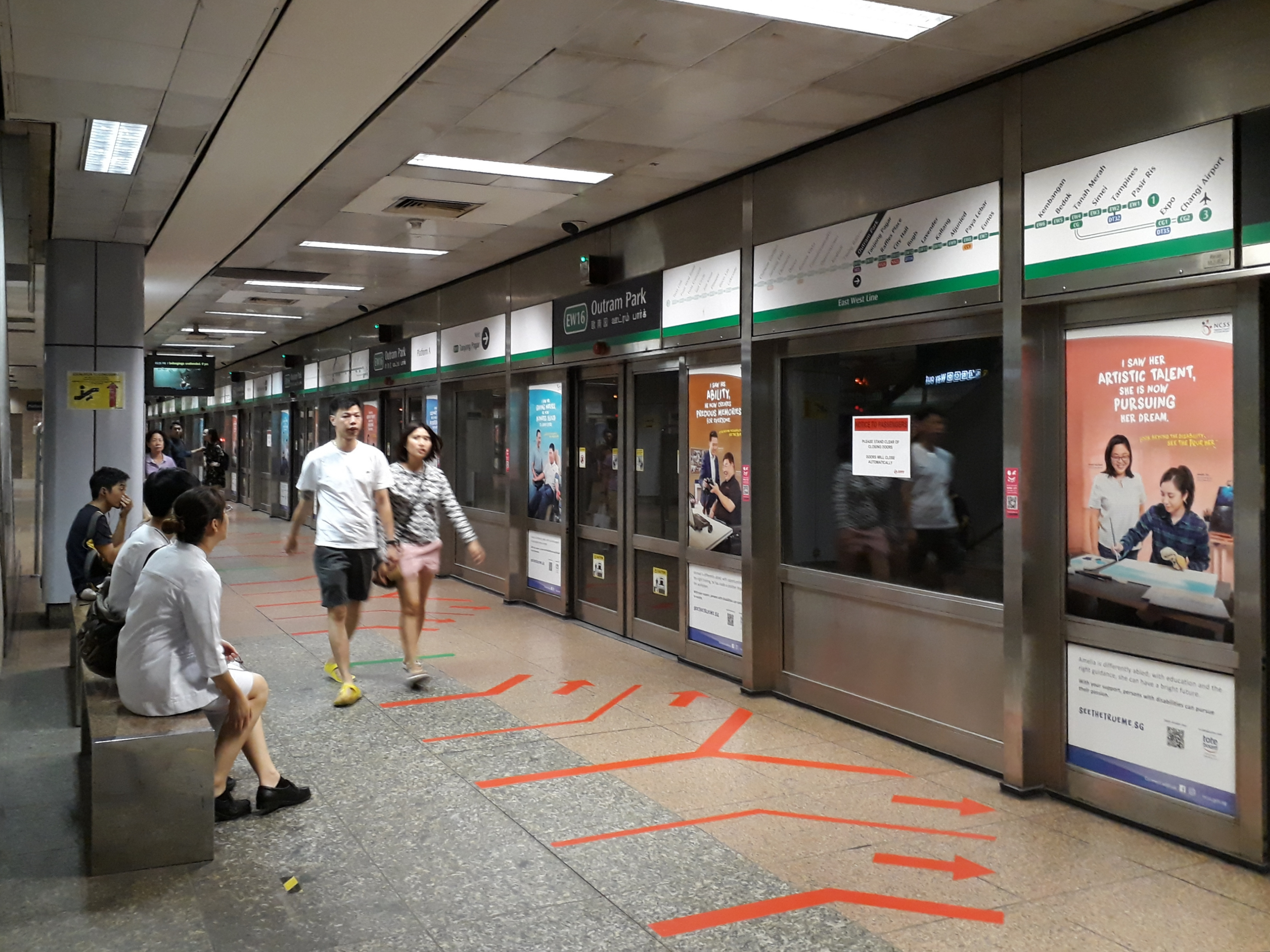 Outram Park